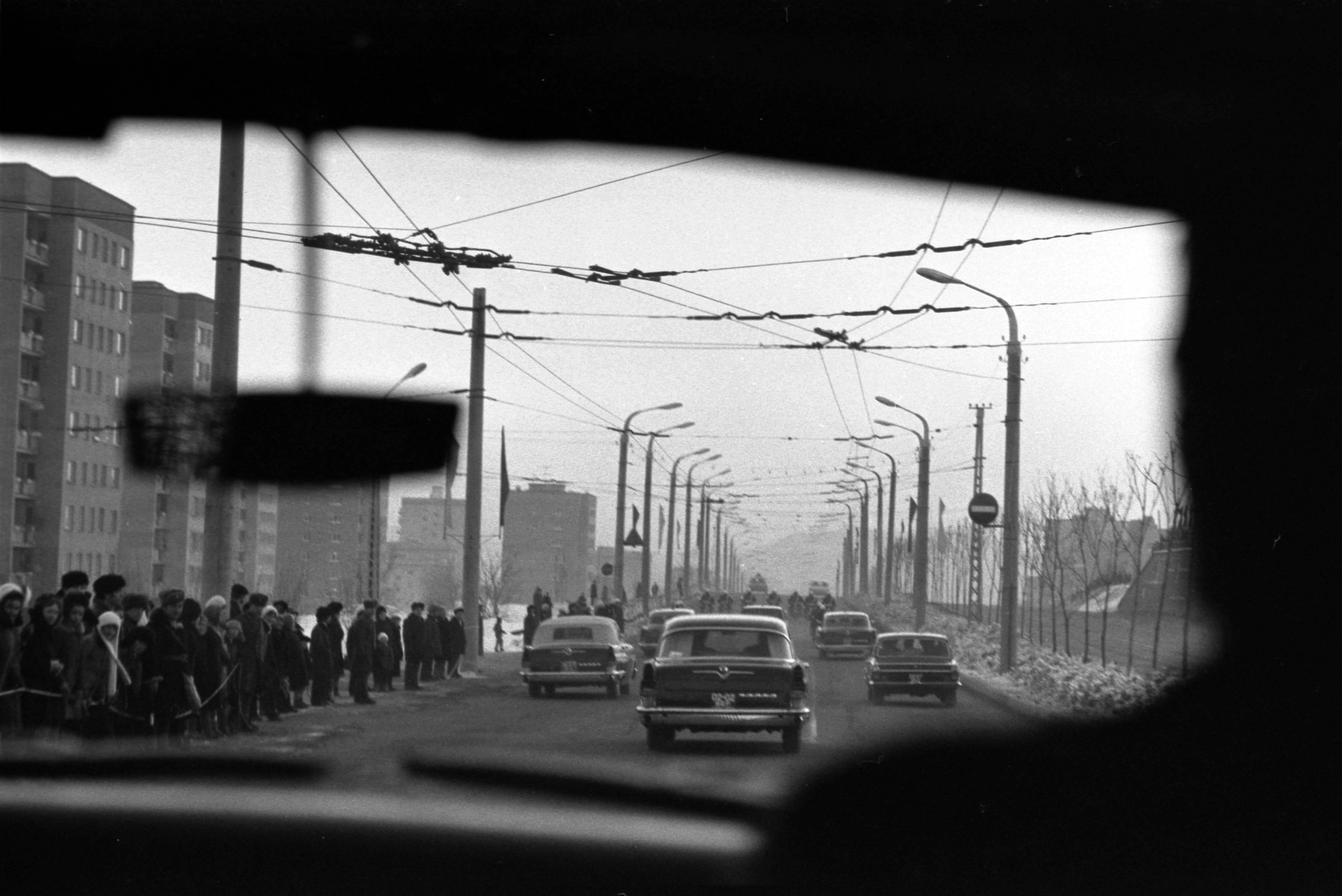 Photograph of President Gerald Ford and General Secretary Leonid Brezhnev touring Vladivostok, U.S.S.R. by motorcade.